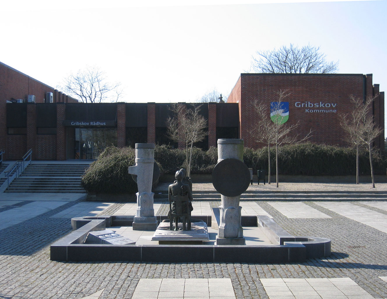 Gribskov town hall, Helsinge, Gribskov municipality, Denmark